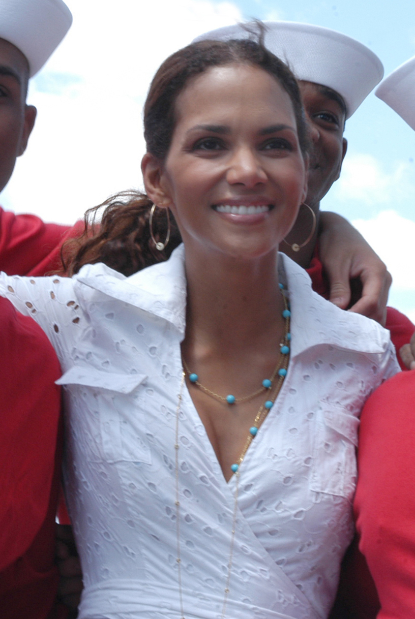 060524-N-1371G-258 New York Harbor - On the flight deck aboard the amphibious assault ship USS Kearsarge (LHD 3), actress Halle Berry poses for pictures with Aviation Boatswain's (Aircraft Handling) 3rd Class Michael Humphrey, left, and Aviation Boatswain's (Aircraft Handling) 3rd Class Chad Oclair both assigned to the ship's air department. Berry who plays "Storm" in the 20th Century Fox upcoming action, sci-fi, "X-Men: The Last Stand," visited with Sailors and embarked Marines during the opening day of Fleet Week New York 2006. The crew was also given a special sneak preview of the film before its worldwide release date of May 26, 2006. Fleet Week has been sponsored by New York City since 1984 in celebration of the United States sea service. The annual event also provides an opportunity for citizens of New York City and the surrounding Tri-State area to meet Sailors, and Marines, as well as witness first hand the latest capabilities of today's Navy and Marine Corps team. Fleet week includes dozens of military demonstrations and displays, including public tours of many of the participating ships.